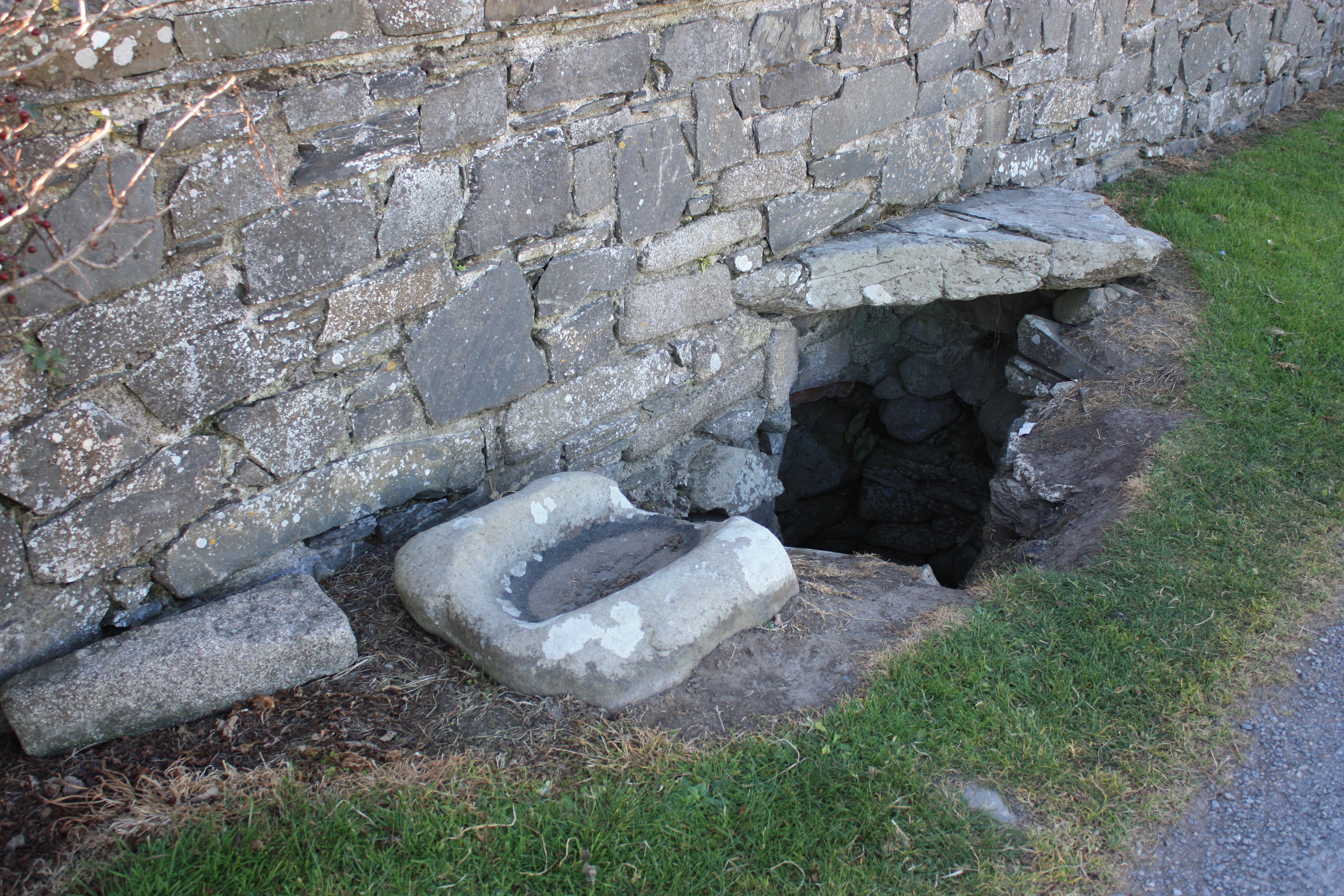 Holy well and bullaun at St John's Point Church, St John's Point, County Down, Northern Ireland, October 2009